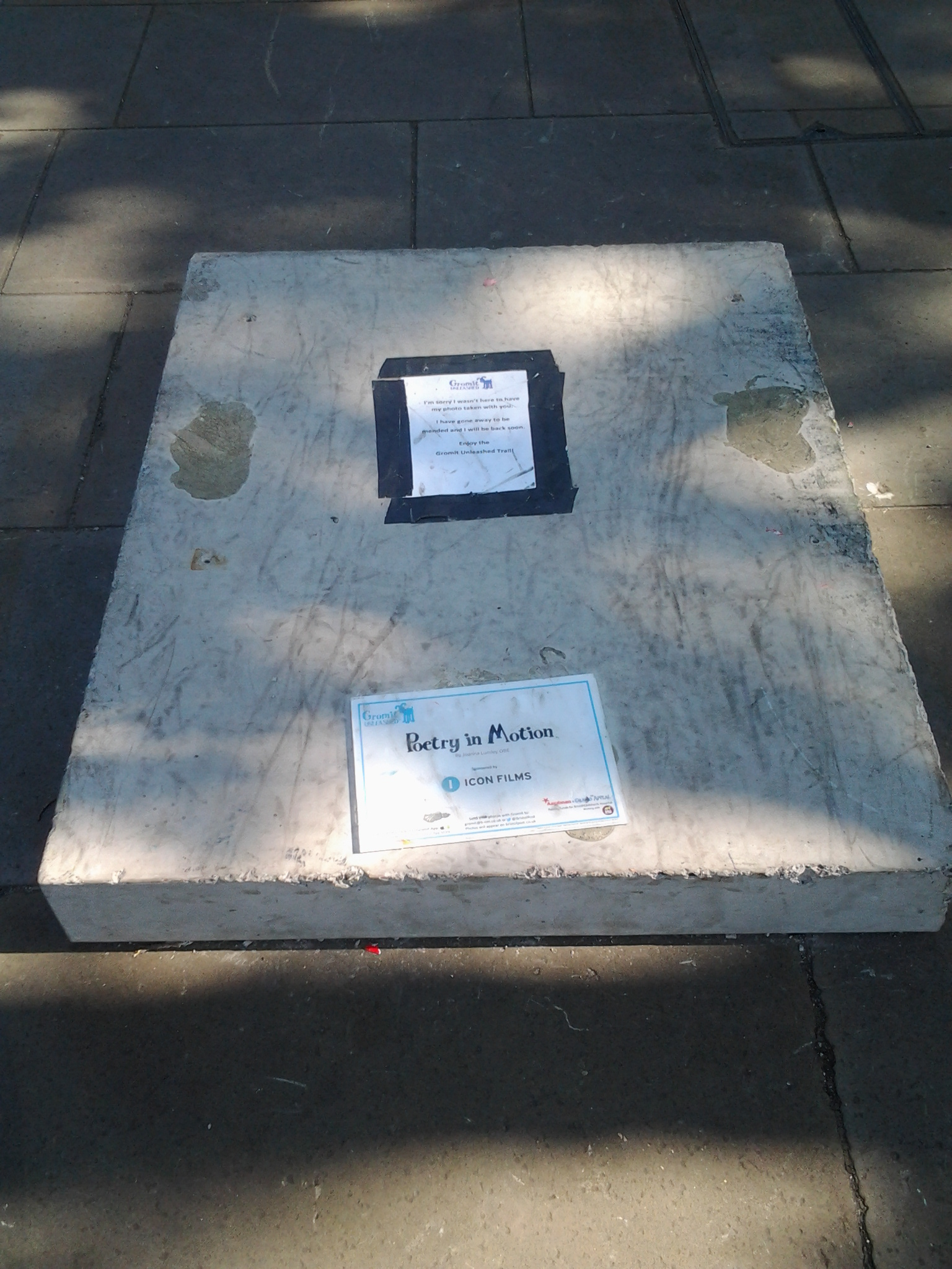 The plinth from Poetry in Motion with Gromit away for repair after being vandalised.